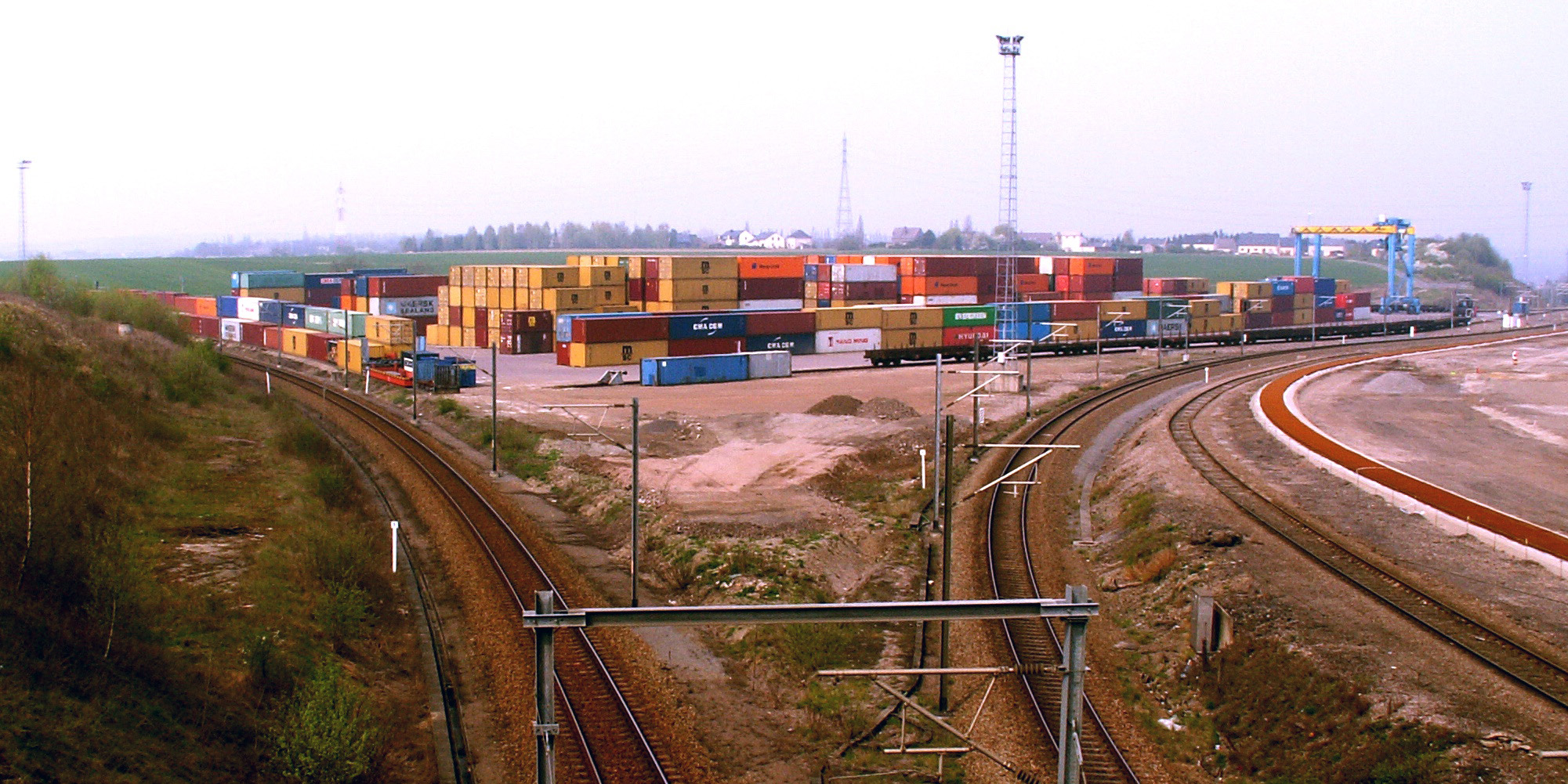 The container Terminal of Athus, as seen from Road N830. The terminal is divided by railway line 167 to Arlon (on the right) and bordered by line 165/1 to Virton (on the left) and line 165 (behind the stacks). Both coming form the Luxembourgian city of Rodange. Photo shows the western zone of the terminal. A second (eastern) zone is available, but out of the photograph.